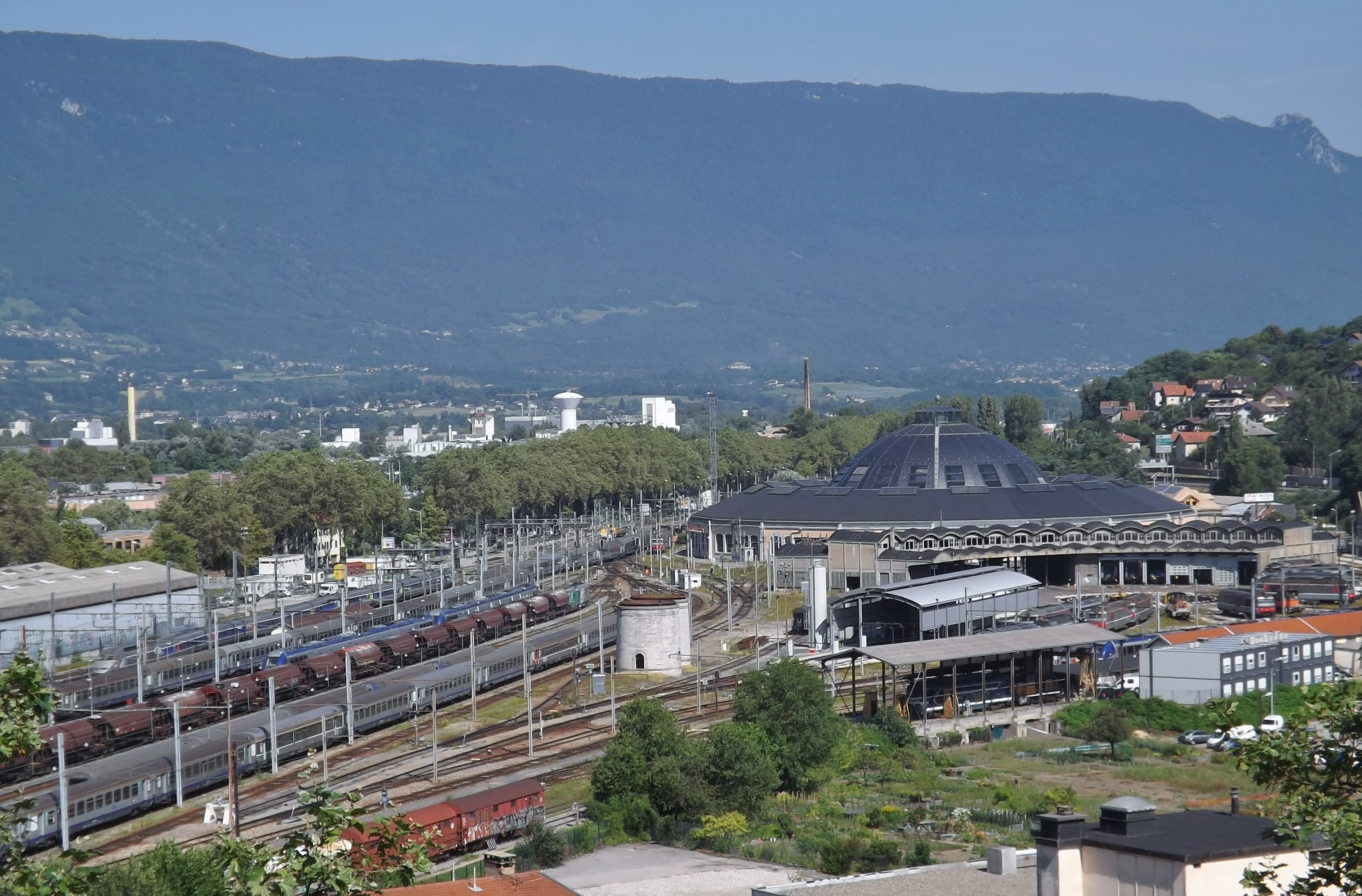 Sight of the SNCF depot of Chambéry, in Savoie (France), with the roundhouse at the background. Is also entering into the station, a TGV coming from Paris and bound for Milan in Italy